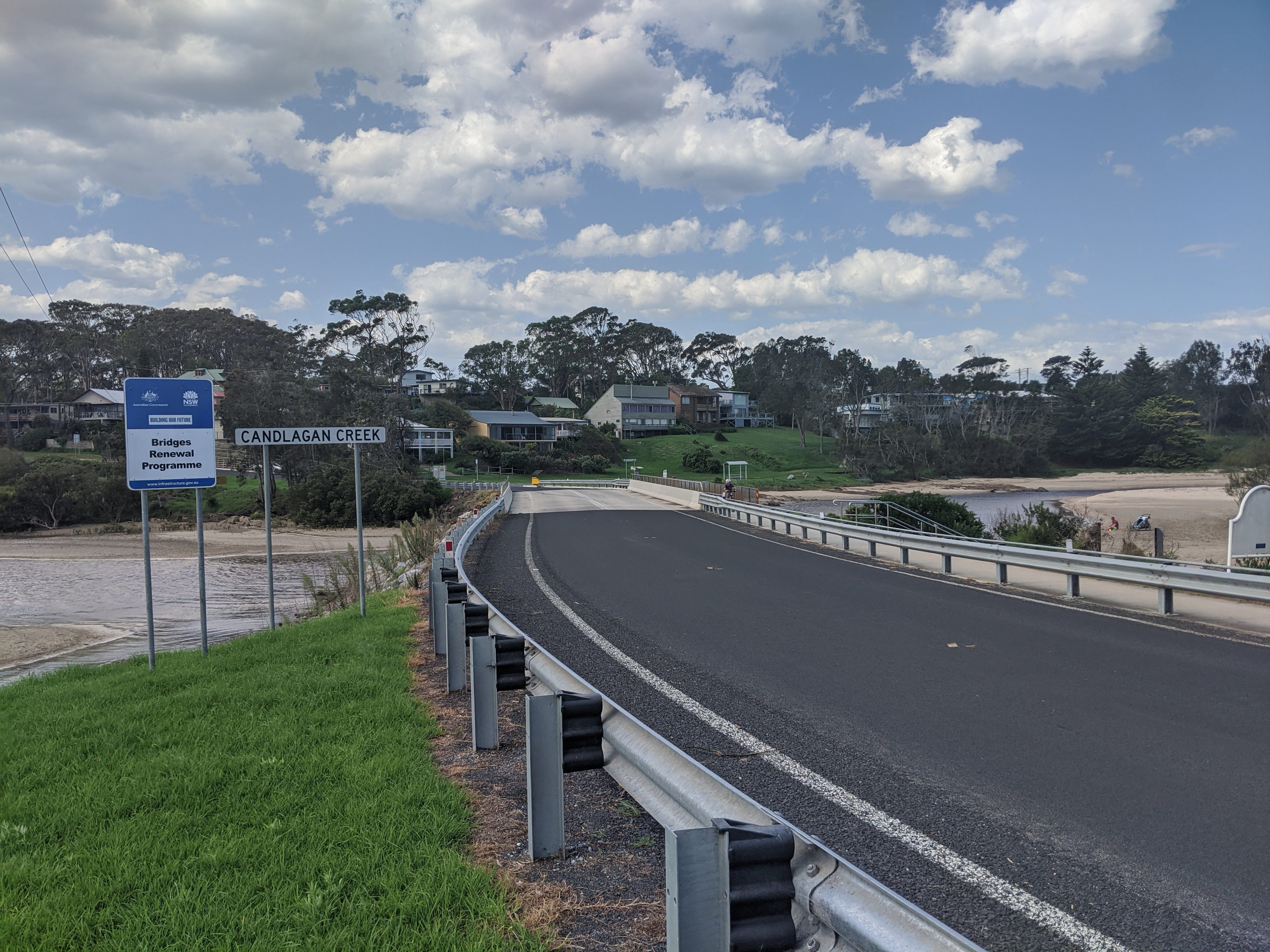 Candlagan Creek, looking towards Mossy Point, New South Wales, 2020